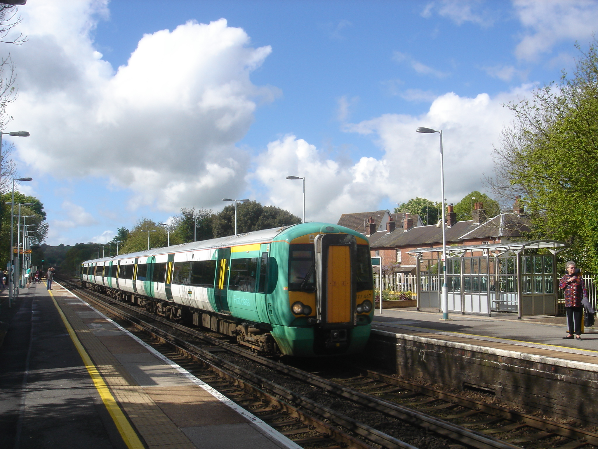 Arriving at Hassocks with the 1005 ex-Brighton stopper to London Victoria.